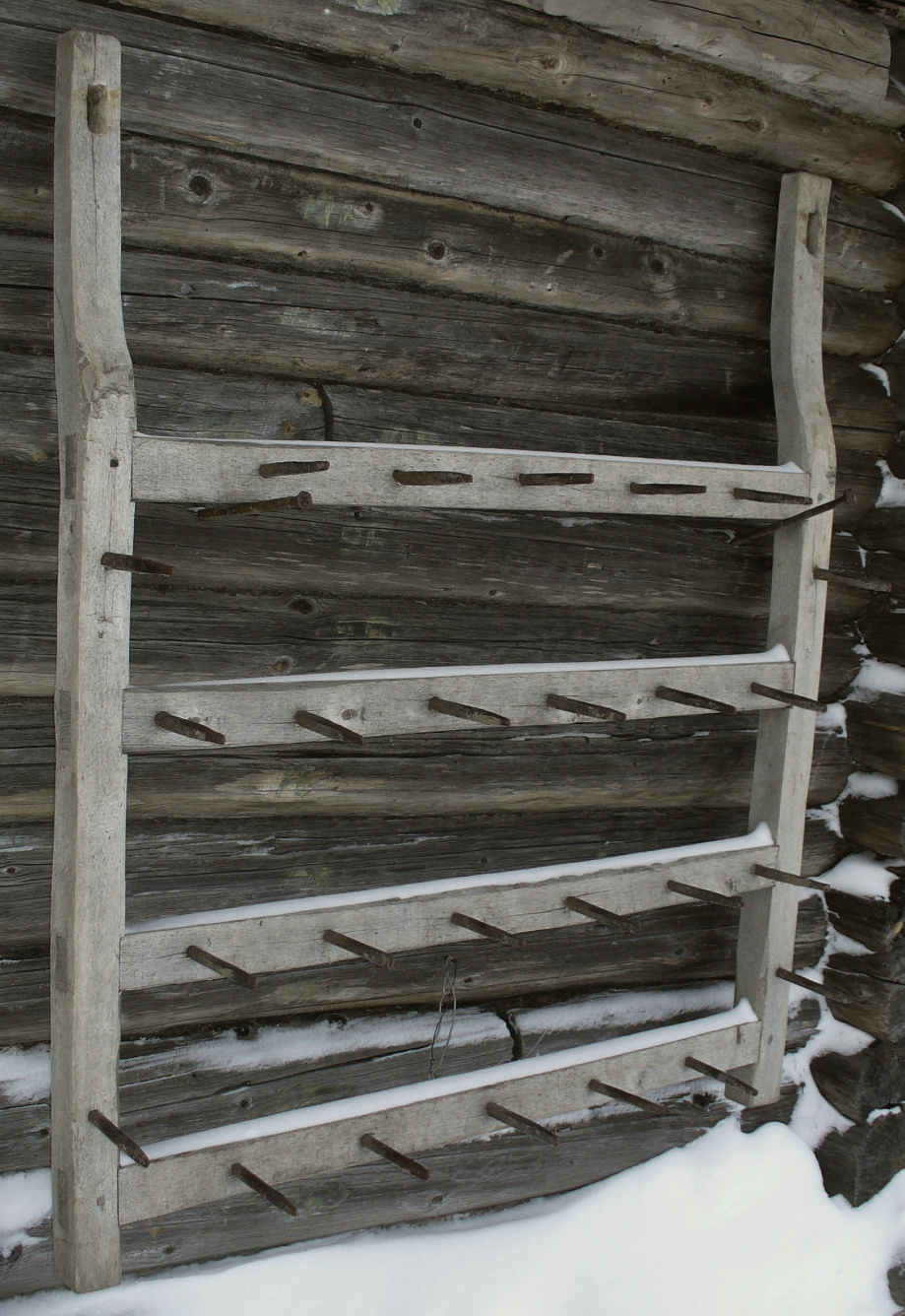 Spike harrow